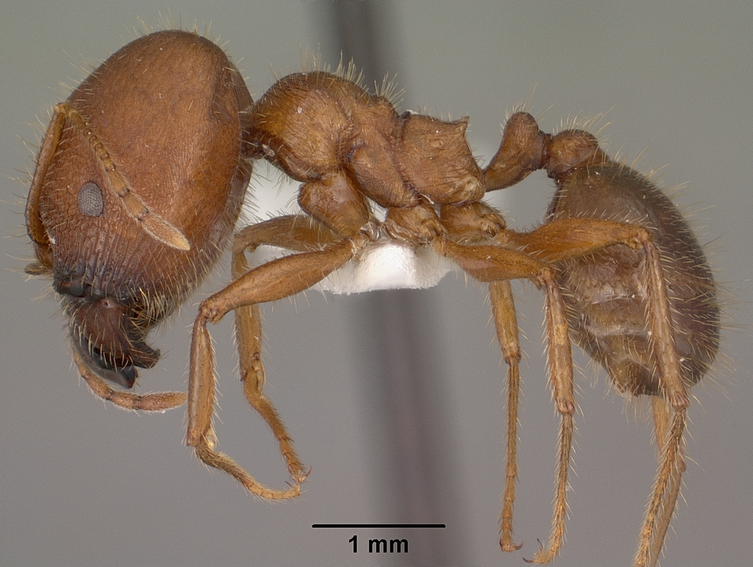 Profile view of ant Pheidole obtusospinosa specimen casent0102886.